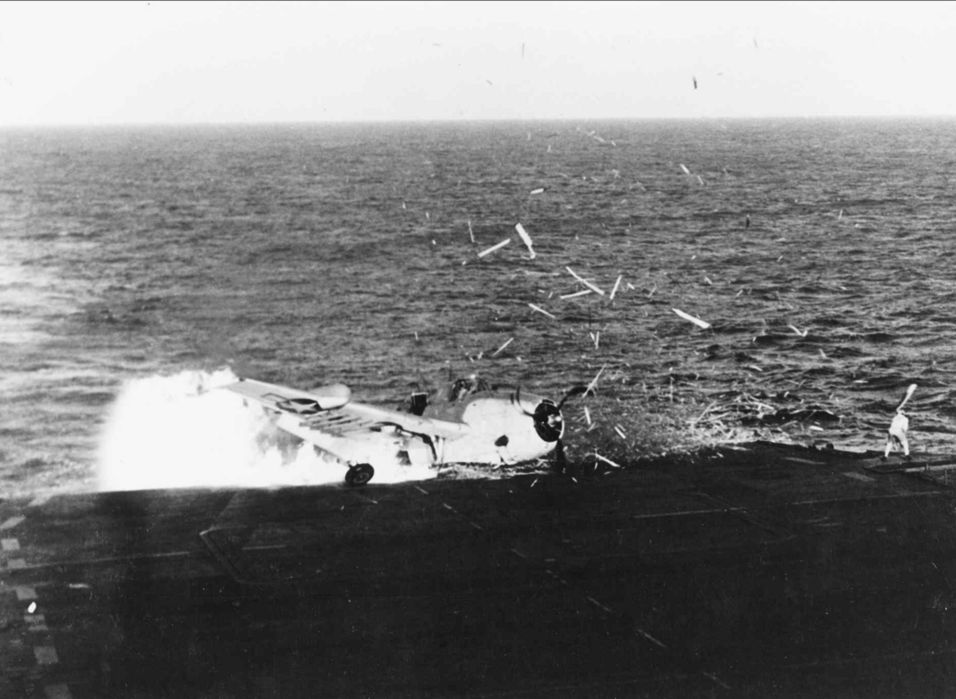 Wooden pieces of the flight deck of the U.S. Navy escort carrier USS Solomons (CVE-67) fly around after a Grumman TBF Avenger flown by William F. Chamberlin strikes the ramp on recovery. The pilot and his crew, members of Composite Squadron VC-9, survived this accident, but were killed in action a month later during an attack against a German U-boat.